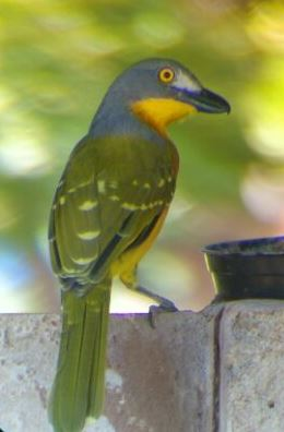 Grey headed bush shrike